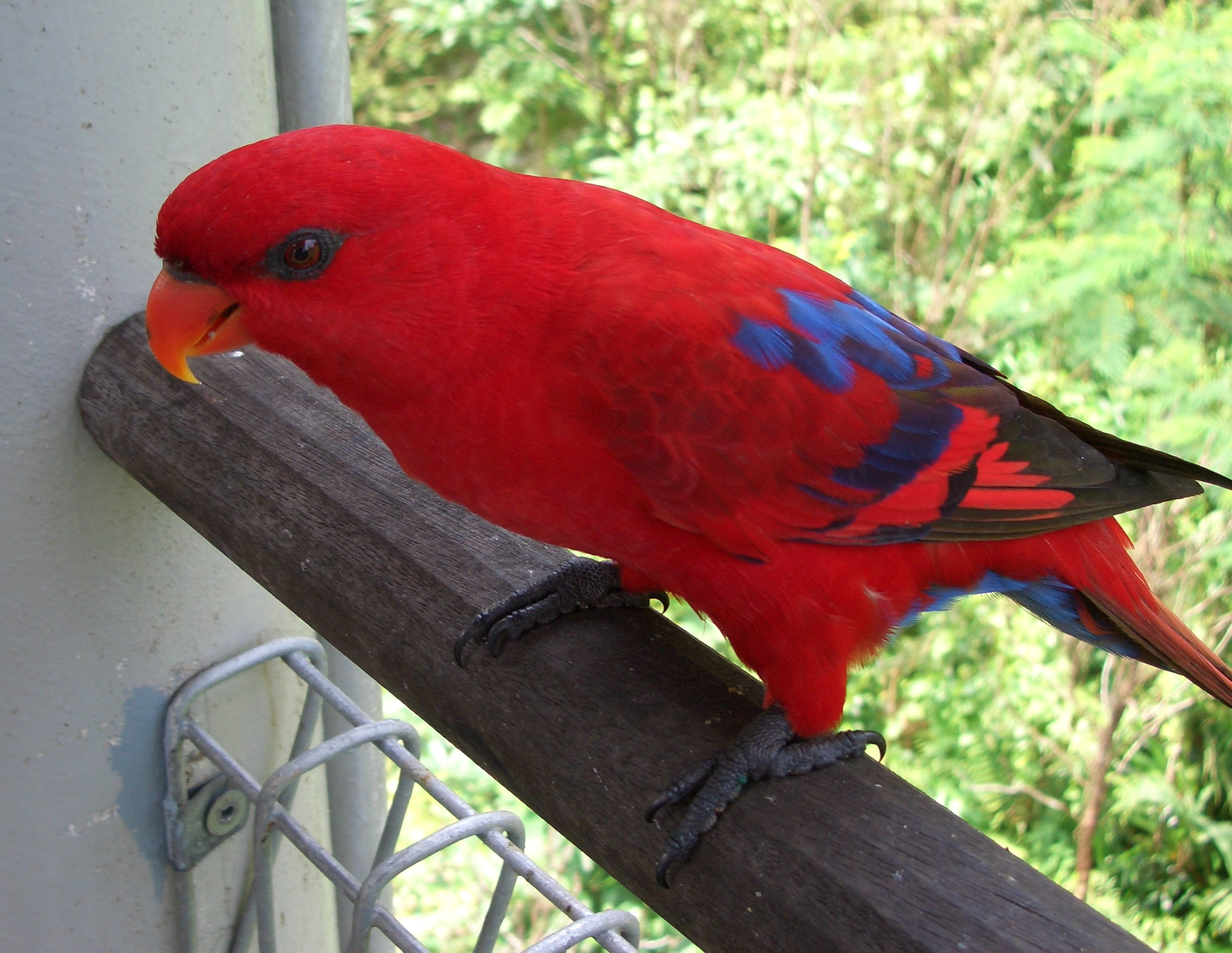 Red Lory (Eos bornea) at Jurong Bird Park, Singapore.